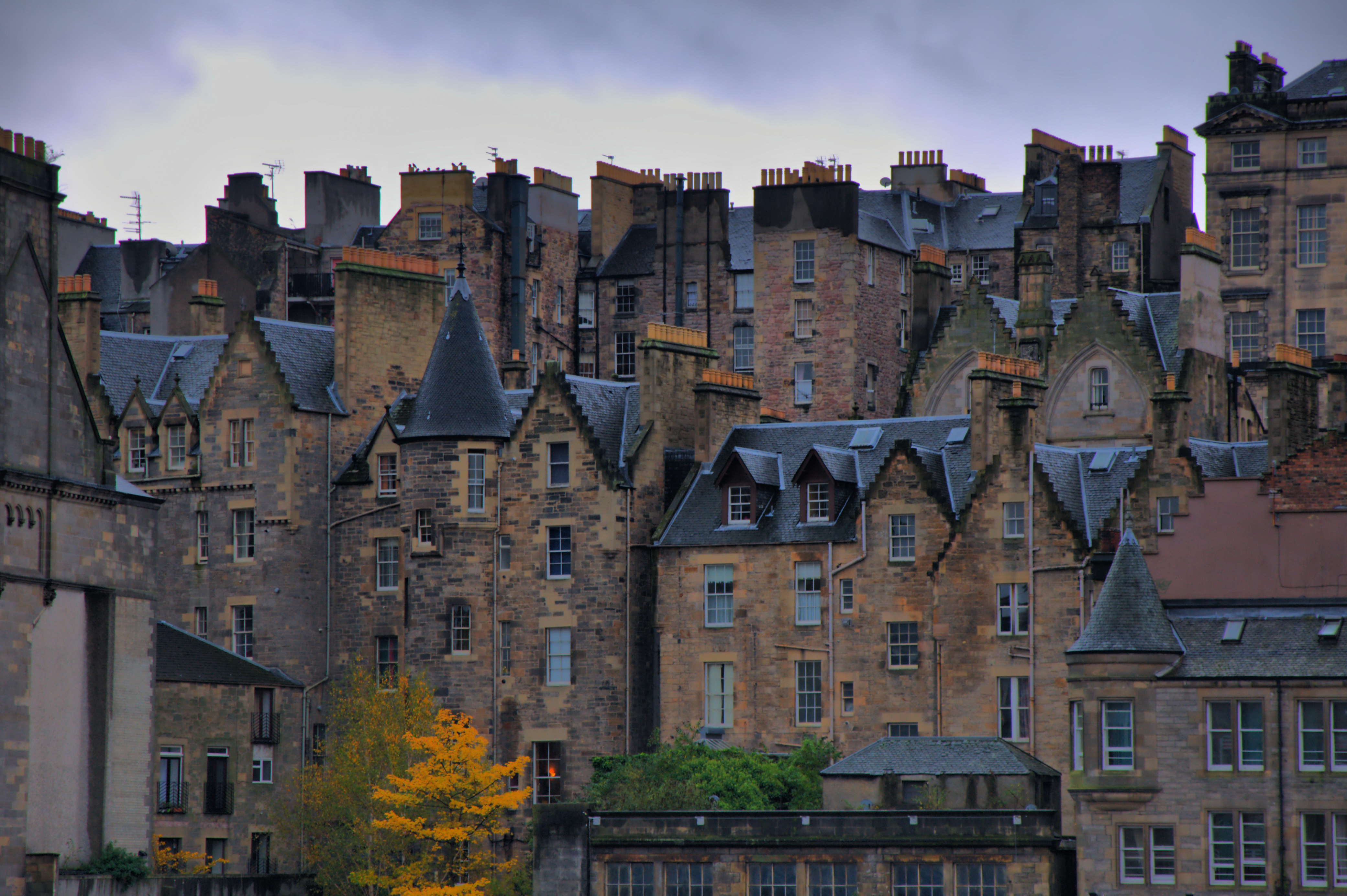 United Kingdom, Edinburgh